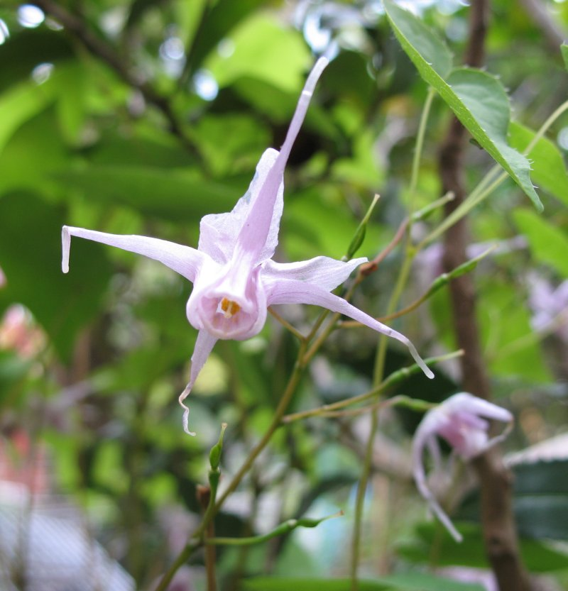 Photograph of Epimedium grandiflorum.